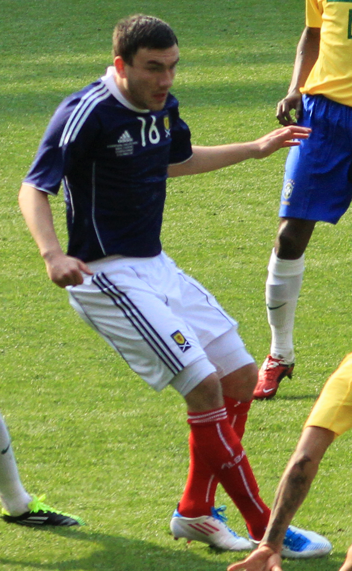 Lucio, Ramires and Alves defend as a pack